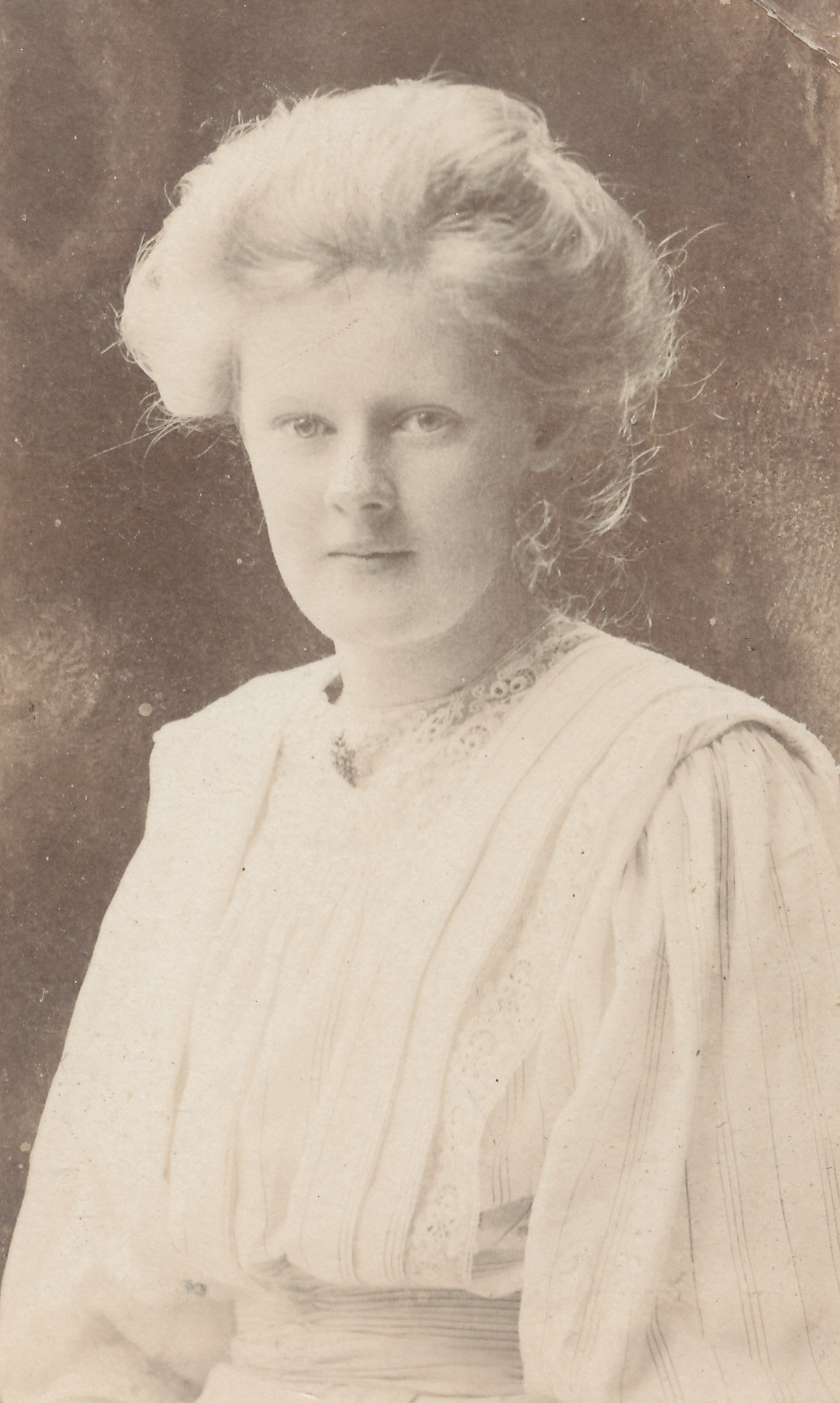 Brita Lidman, circa 1910.